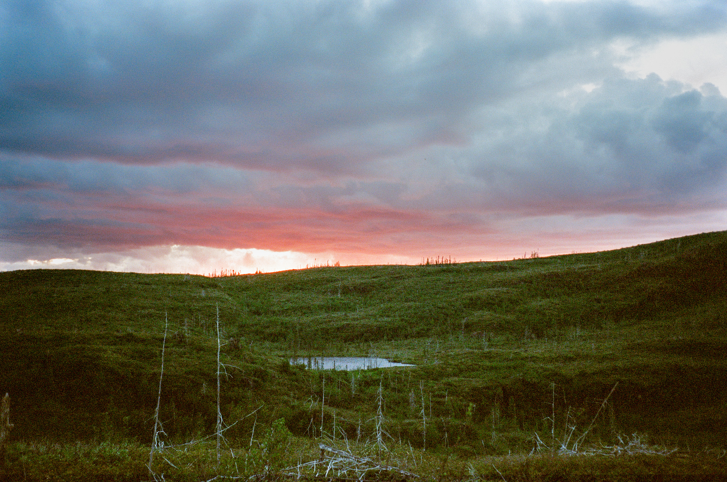 Sunset from plateau of Otish Mountains. Taken July 2018.